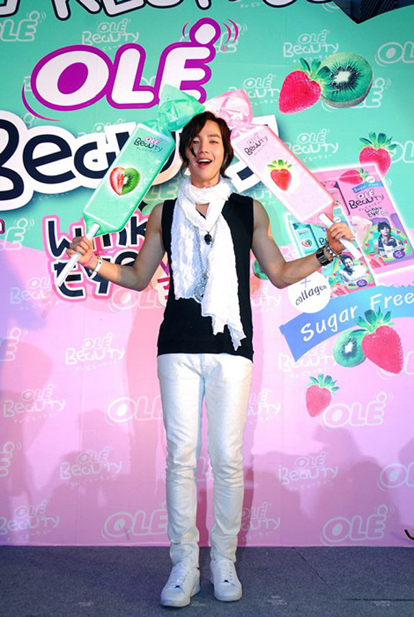 Jang Guen Sok, a South Korean model, actor, singer, etc., at Siam Discovery, Bangkok, January 8, 2011